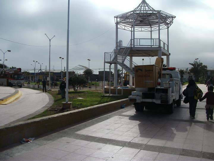 Alto Hospicio Square